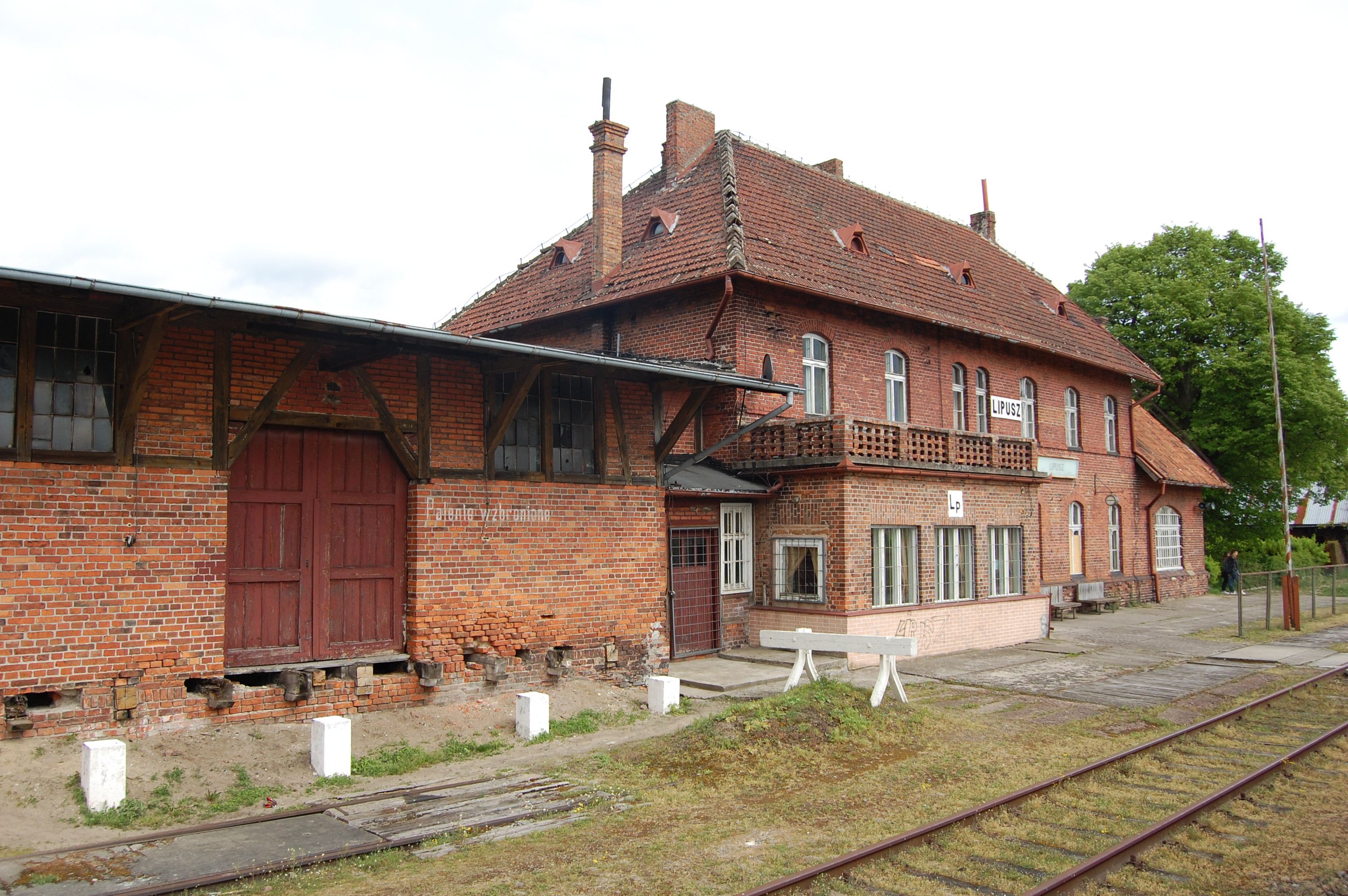 Train station Lipusz